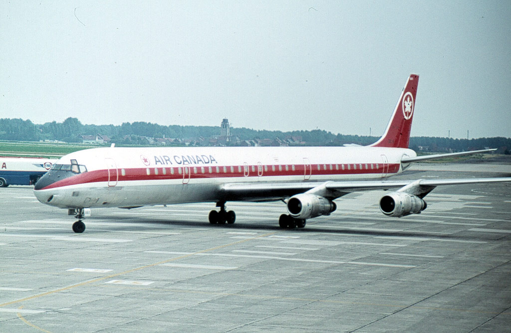 I took pic in 1980 (unsigned comments added on en.wikipedia): this is a picture of a douglas dc 8 - 60,s series and not a b767 Note: it is not C-FVNM either ! THIS IS NOT A 767